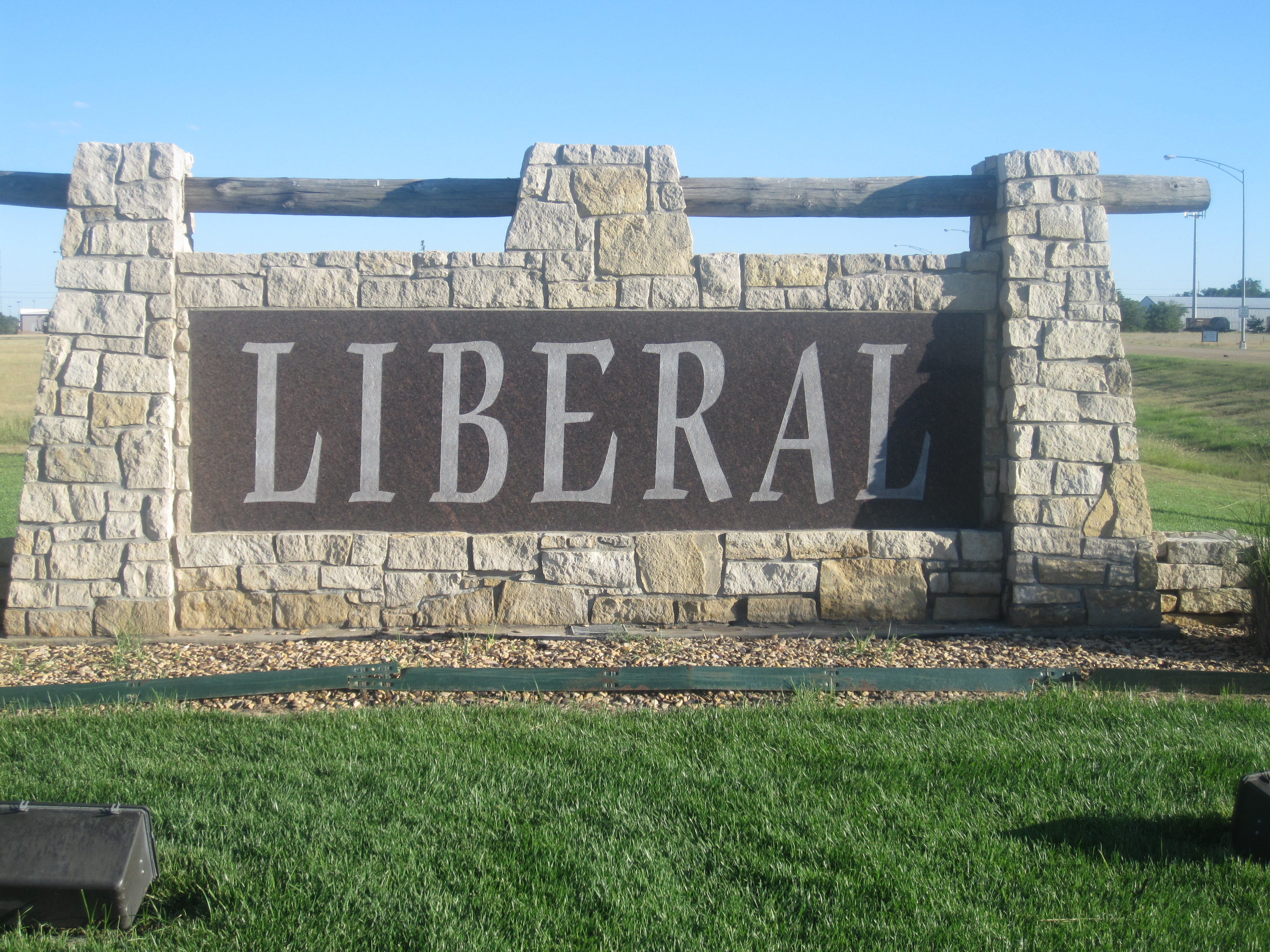 I took photo with Canon camera in Liberal, KS.